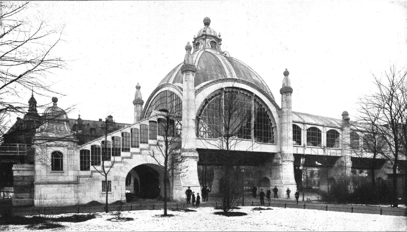 The station Nollendorfplatz in Berlin-Schöneberg shortly after construction was completed (1903).